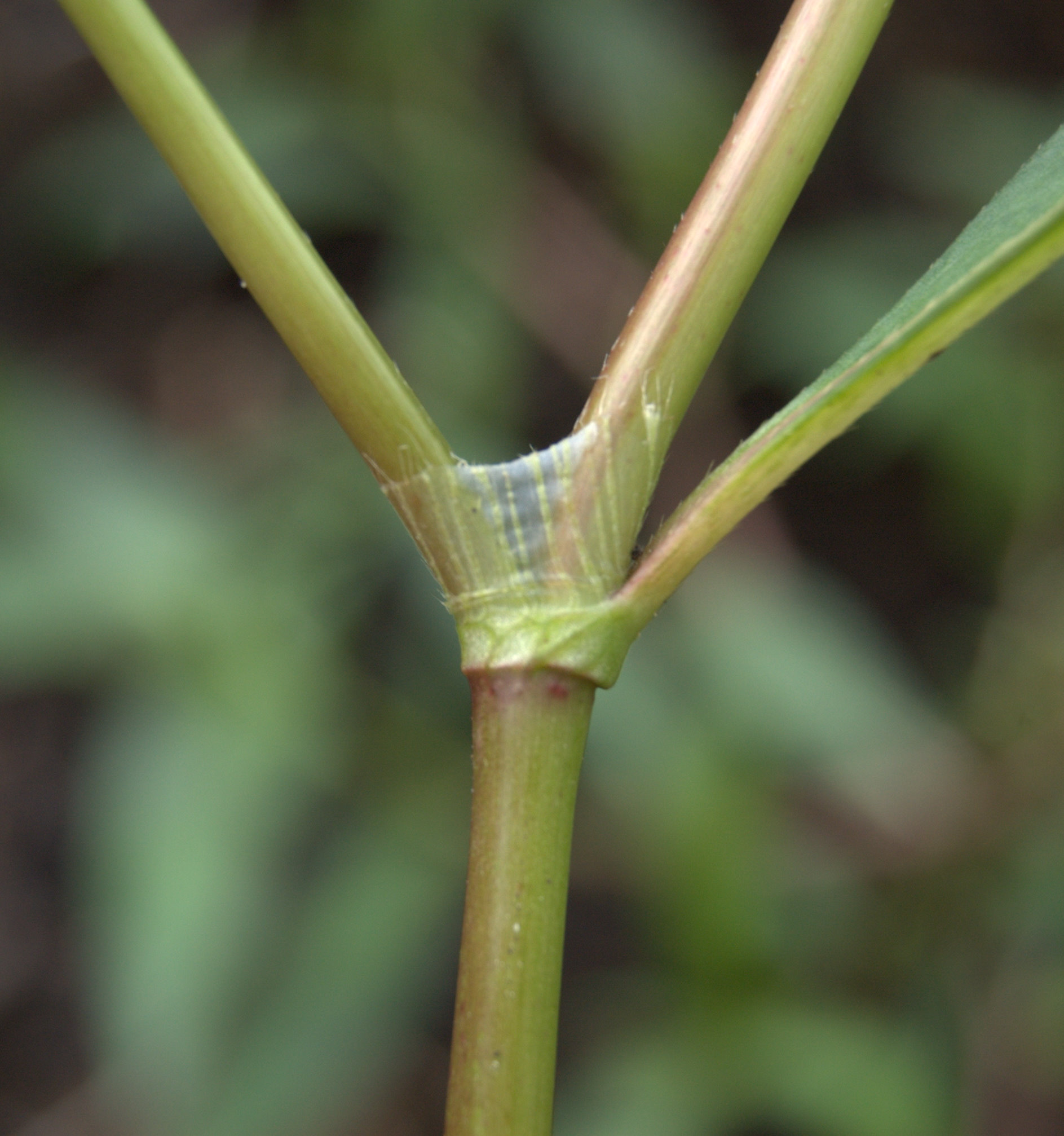 This image shows the stem of a Redshank plant (Persicaria maculosa) and in particular it shows the ocreae, which is the sheath around the stems just above the joint. The ocreae is in fact evolved from fused stipules. Camera: Nikon D50 Location: In a pile of soil/compost behind the Botanical Garden in Gothenburg, Sweden